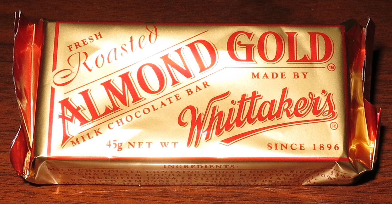 Whittaker's fresh roasted "Almond Gold" milk chocolate bar